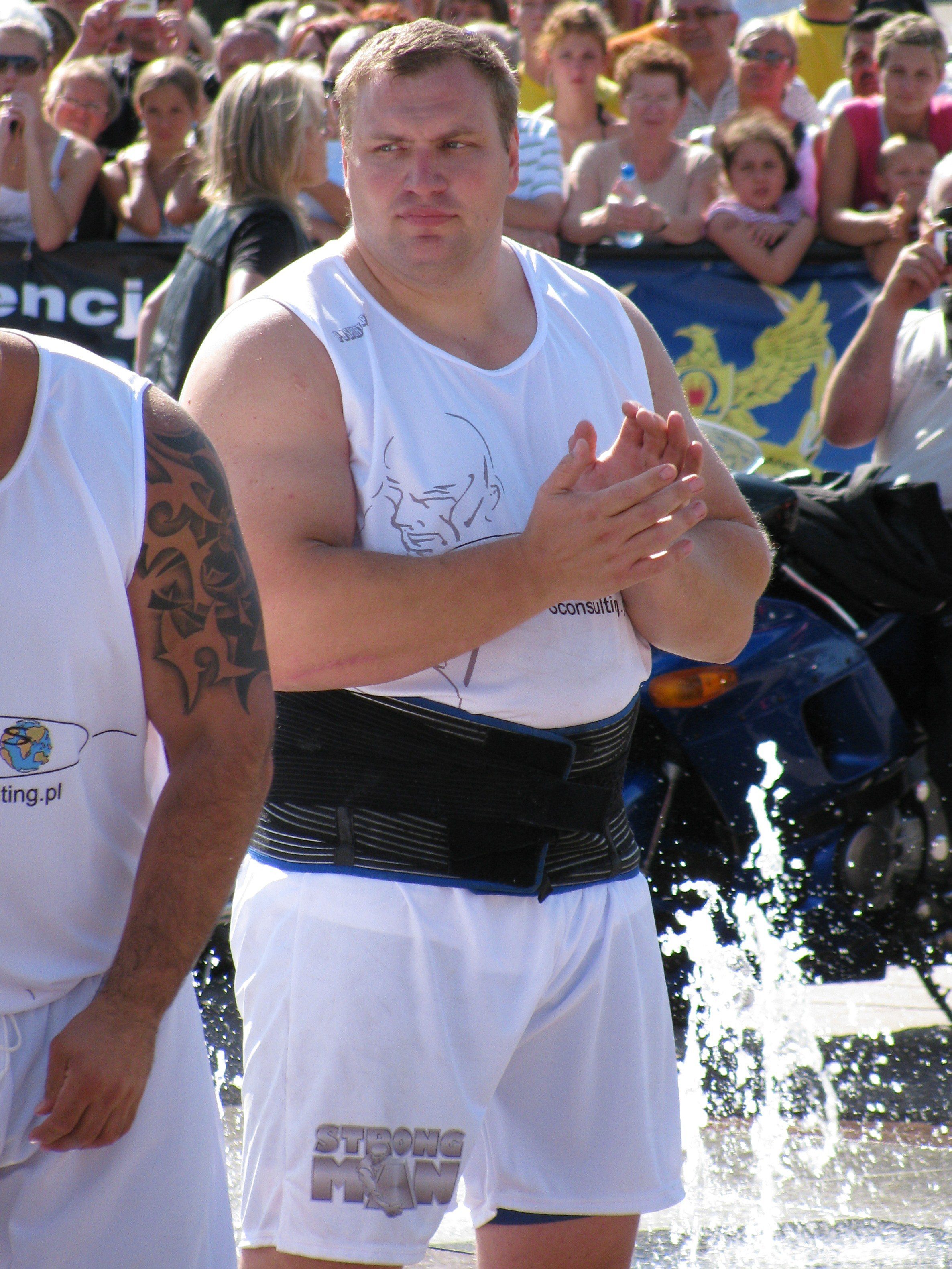 Tarmo Mitt - a strength athlete from Estonia. Estonia's Strongest Man.